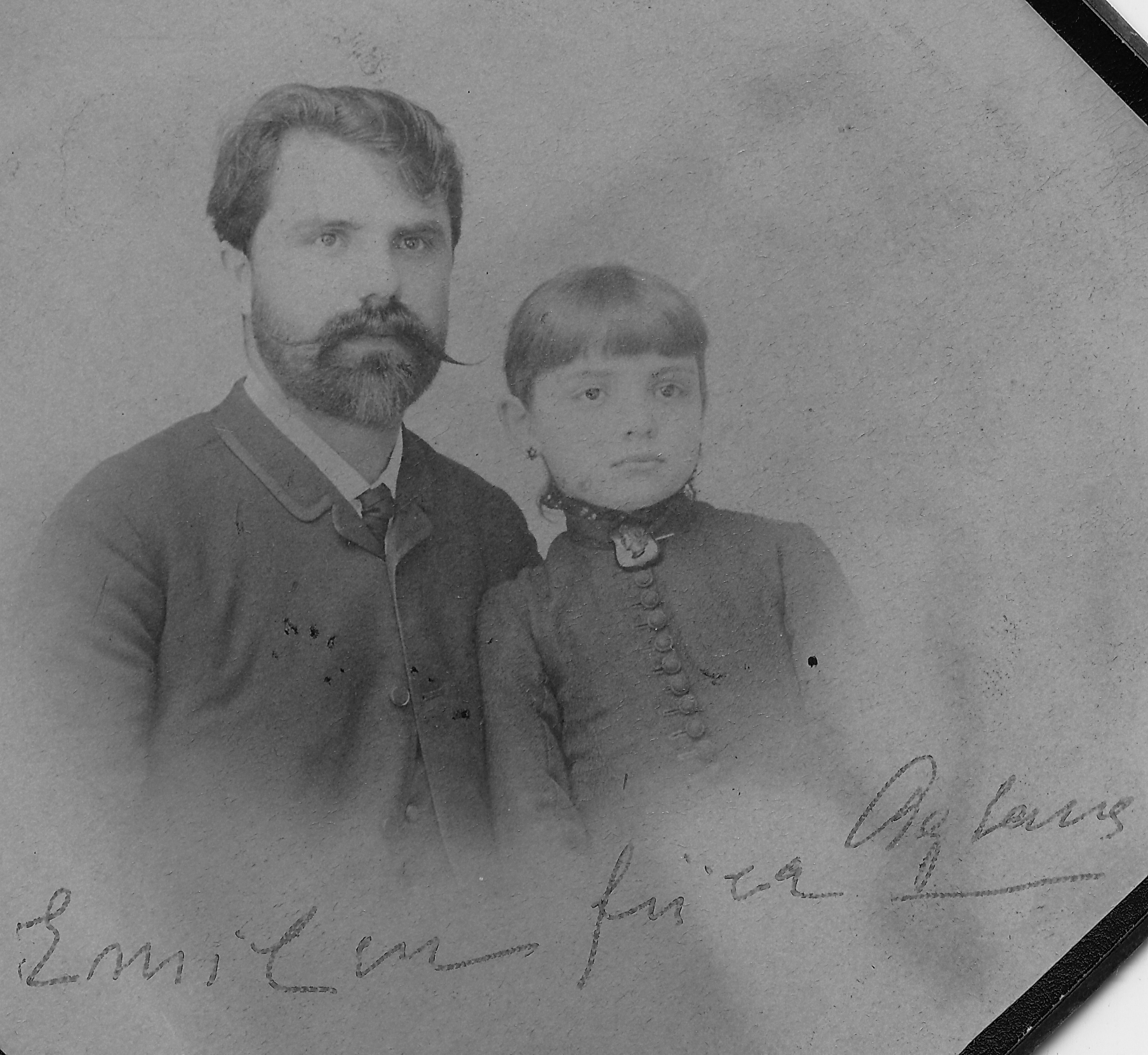 Emanuil Grigorovitza, Romanian germanist, and his daugther Aglaia